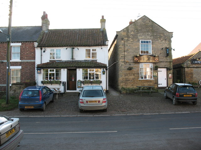 Dishforth Drinkers Dilemma With two pubs side by side in Dishforth it must be a difficult decision which to choose.